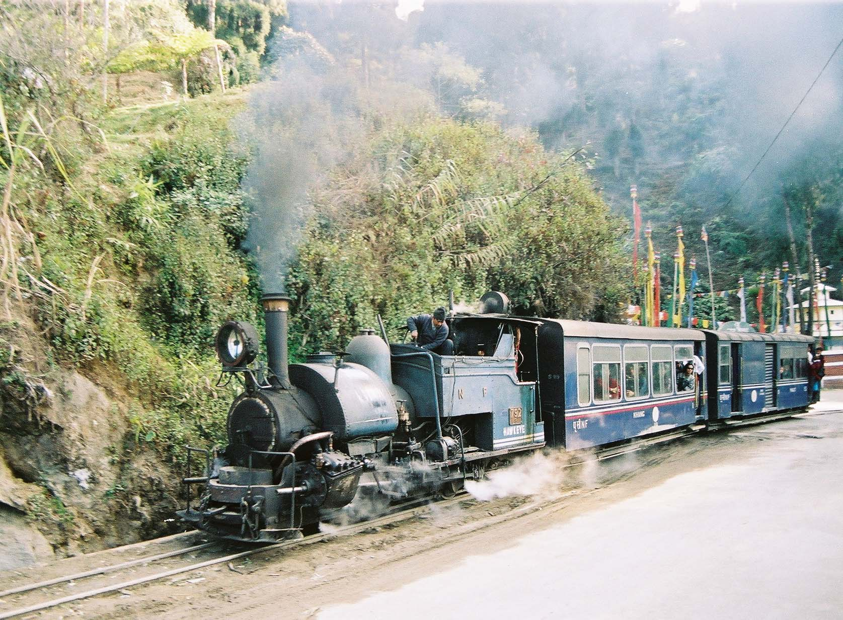 DHR Locomotive 792 'Hawkeye' with the morning 'school train'. 23rd February 2005 Photographer - A.M.Hurrell Camera - Minolta X700 (35mm film) Modified - Scanned by film developer. File size and definition changed using Adobe Photoshop 5.0LE